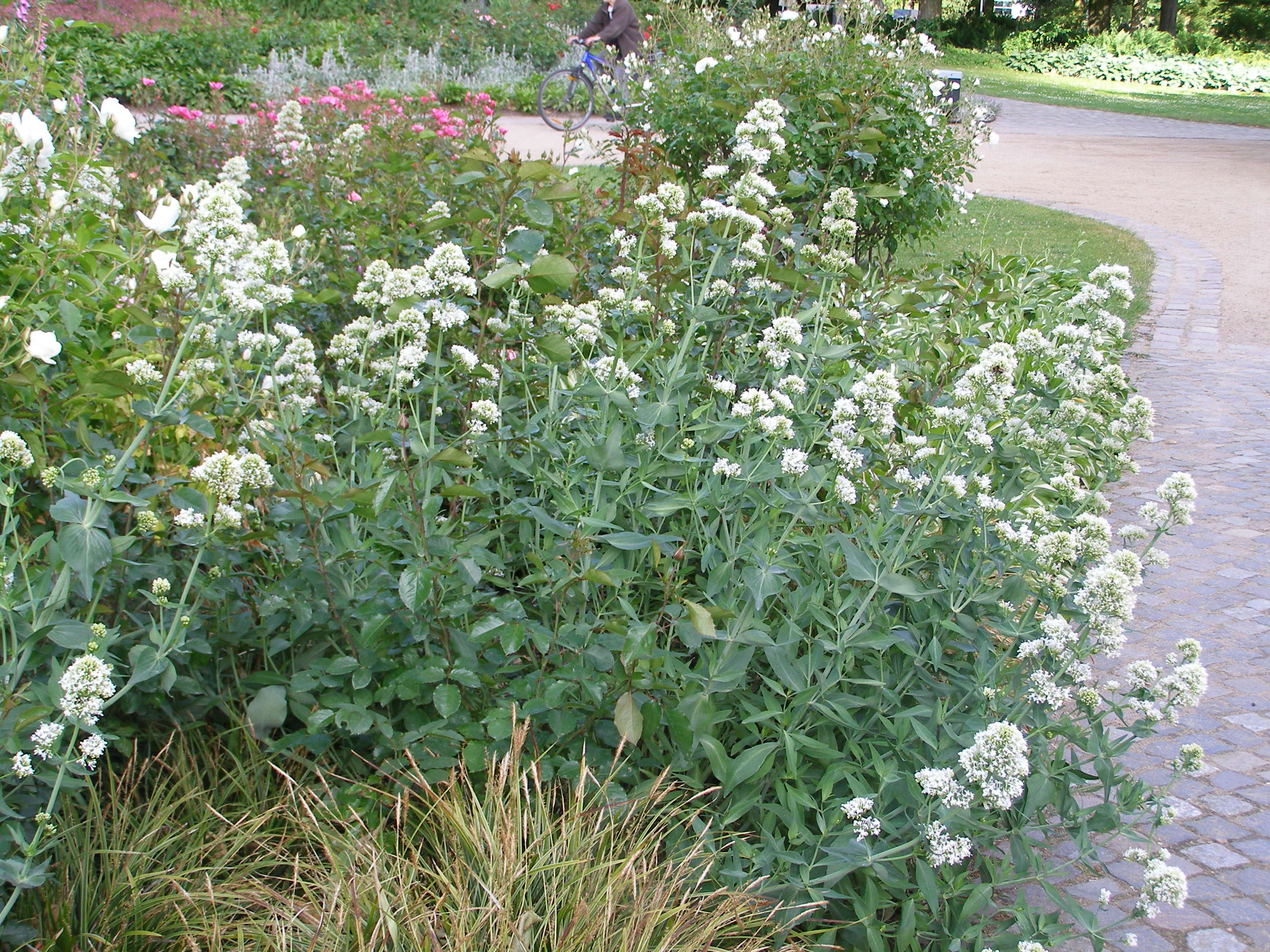 For determination! May be deleted if Commons already has enough photos of that plant